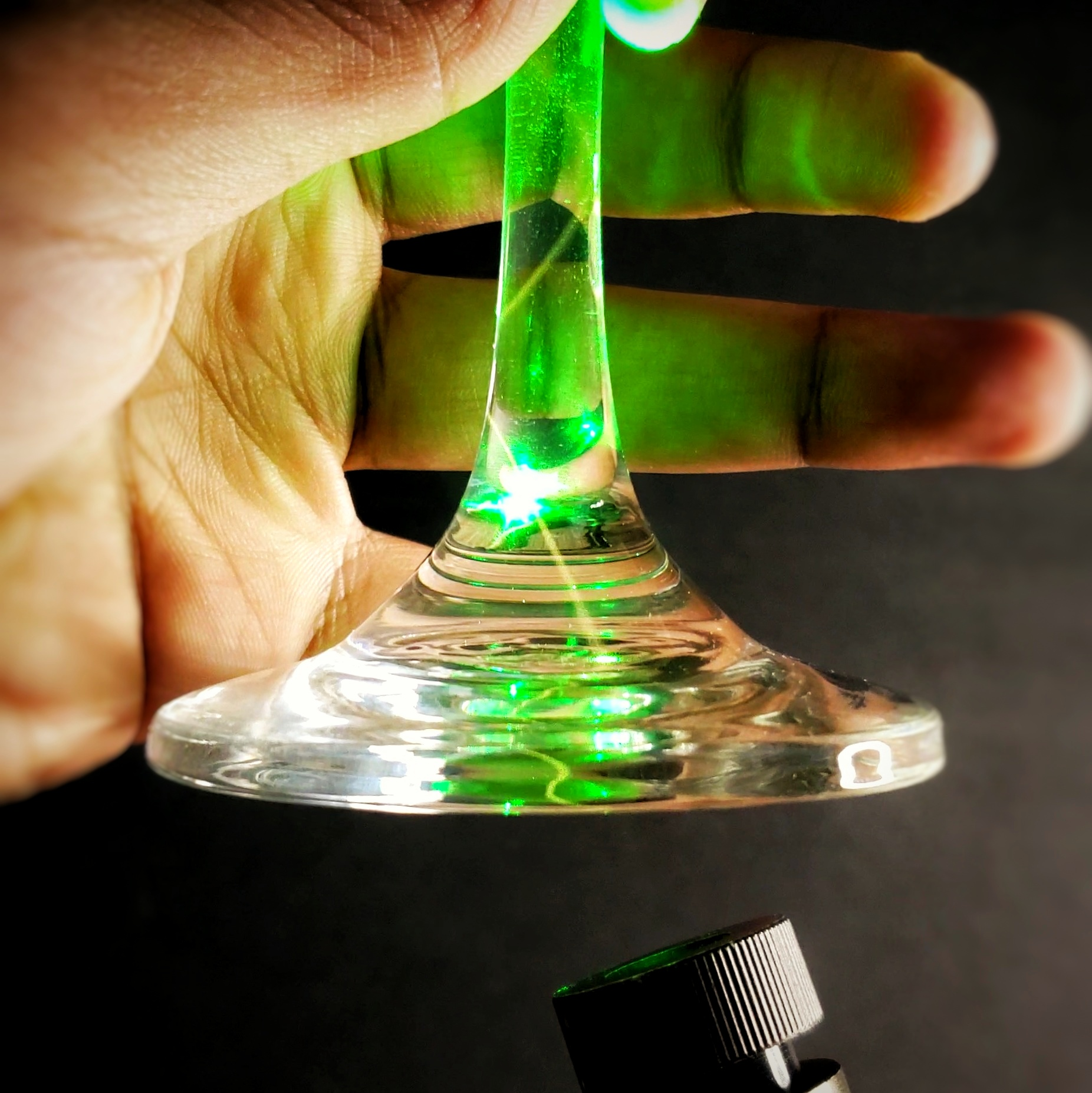 Demonstration of Total-Internal-Reflection(TIR) in a wine glass